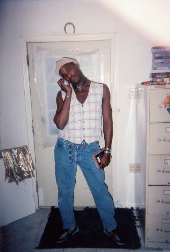 An African American Man, wearing vest, speaking on Cellular phone